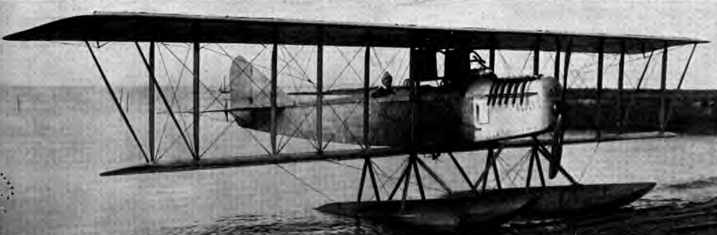 Aeromarine 700 torpedo-bomber.